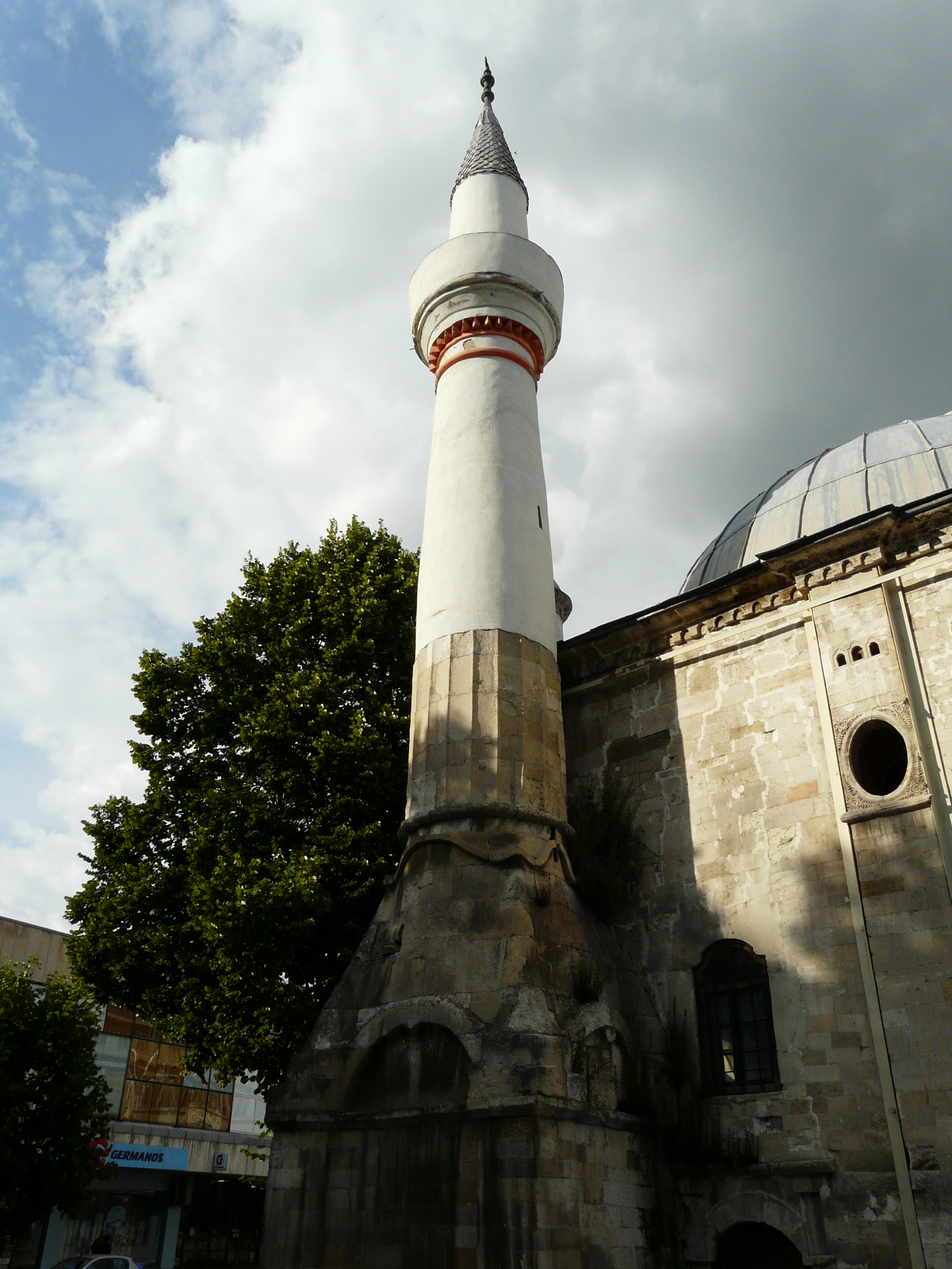 Silistra mosque minaret